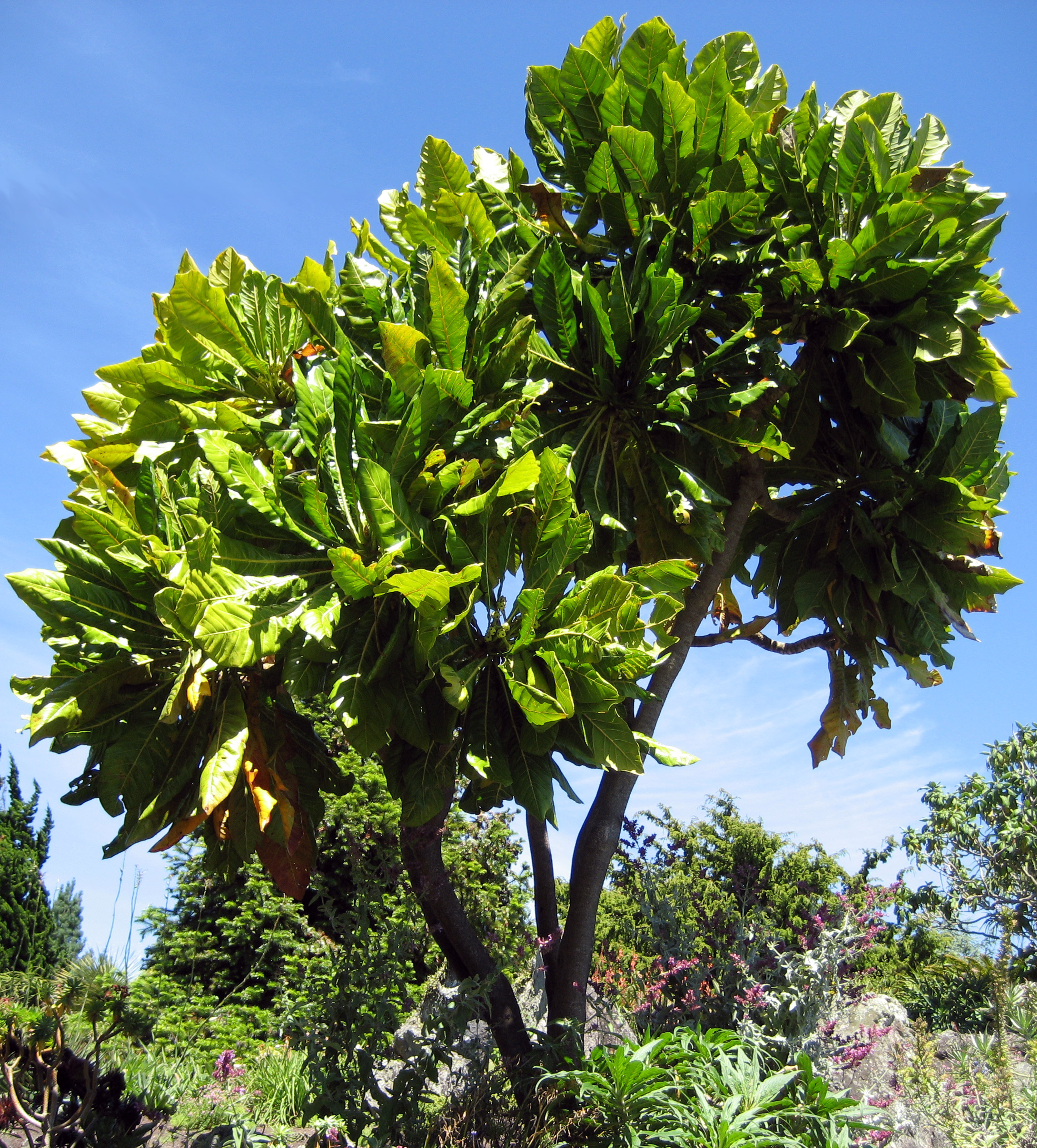 Meryta denhamii tree growing in cultivation at Manukau City, New Zealand